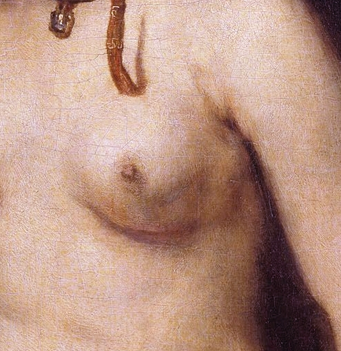 signs of a breast tumour